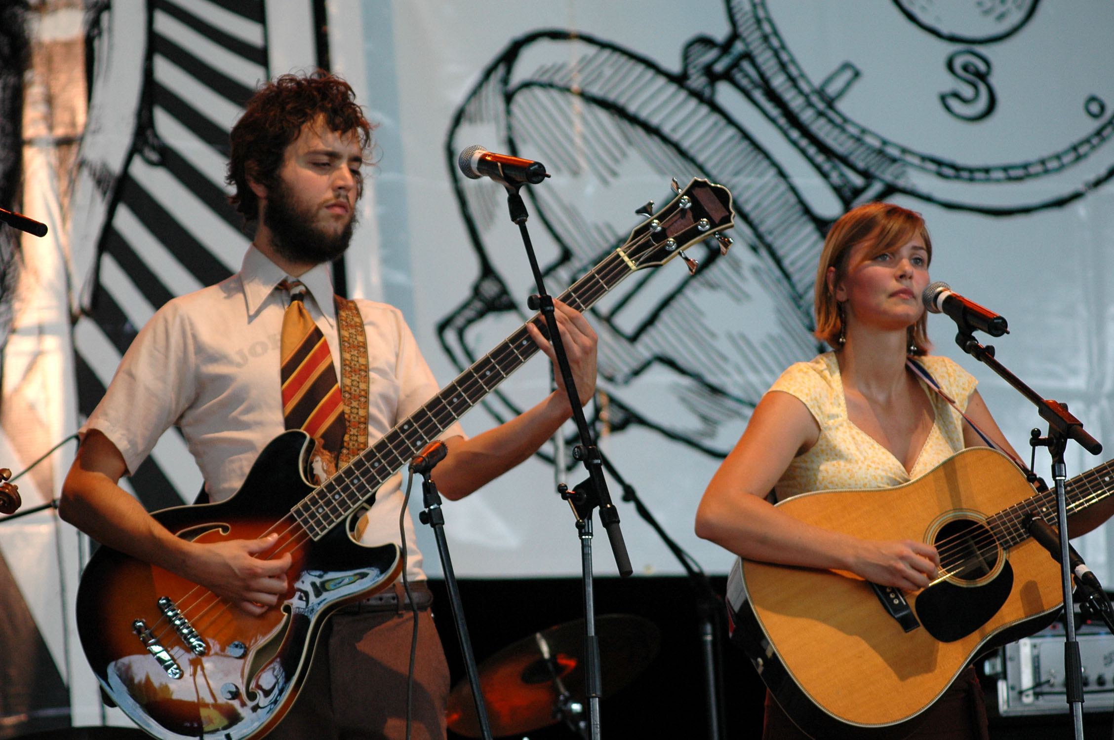 The Everybodyfields performing at the Festival Essex on August 27, 2006. Pictured: Sam Quinn and Jill Andrews.